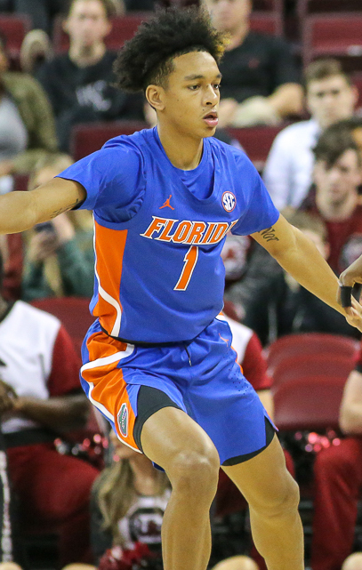 Photo by Chris Gillespie